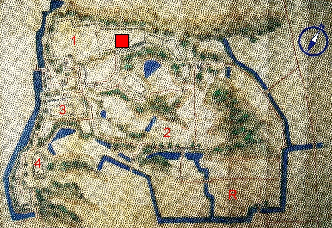 Layout of Sadowara castle in Miyazaki Prefecture, Japan